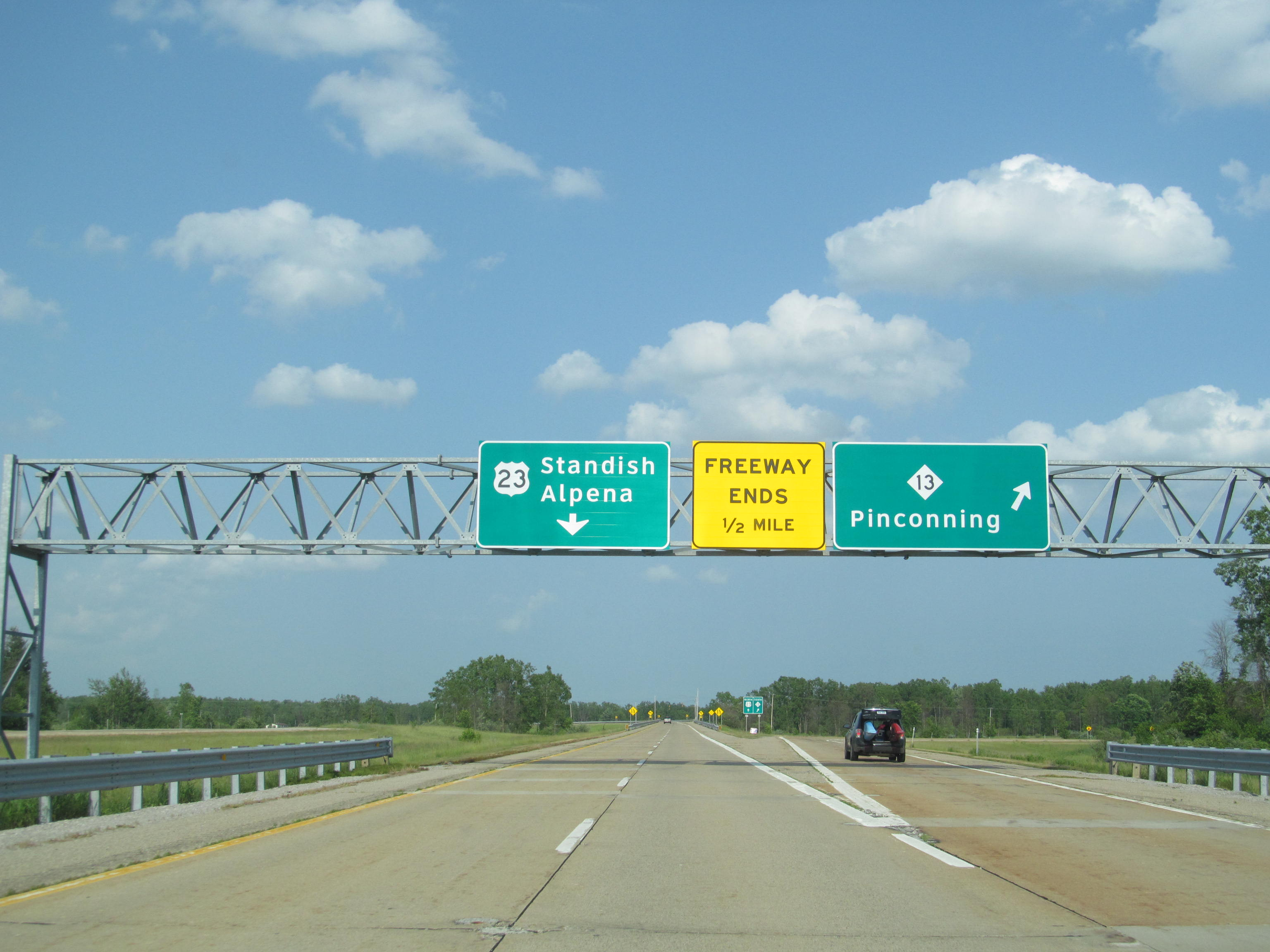 Northern end of the freeway section of U.S. Route 23 in Michigan